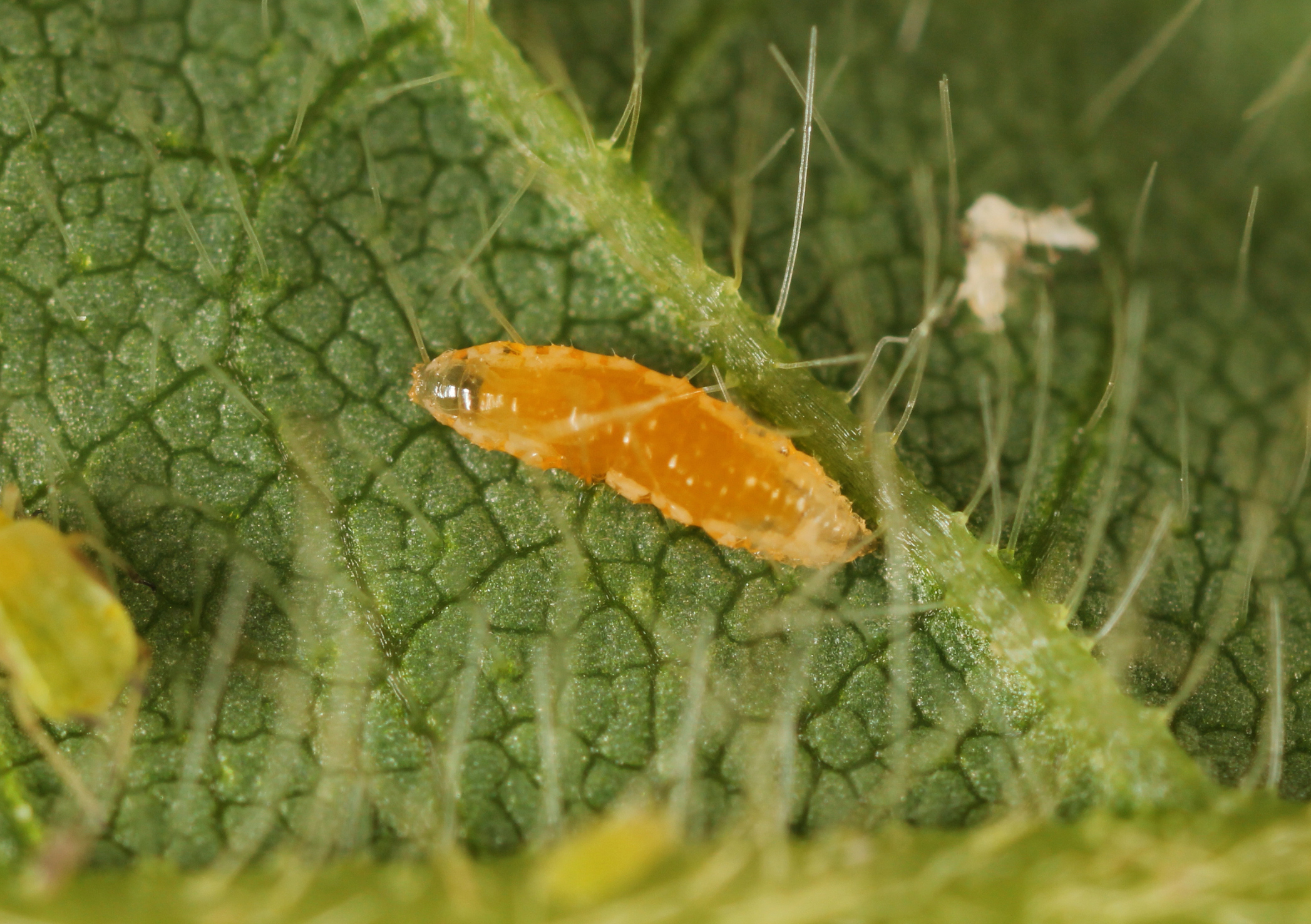 Aphidoletes aphidimyza